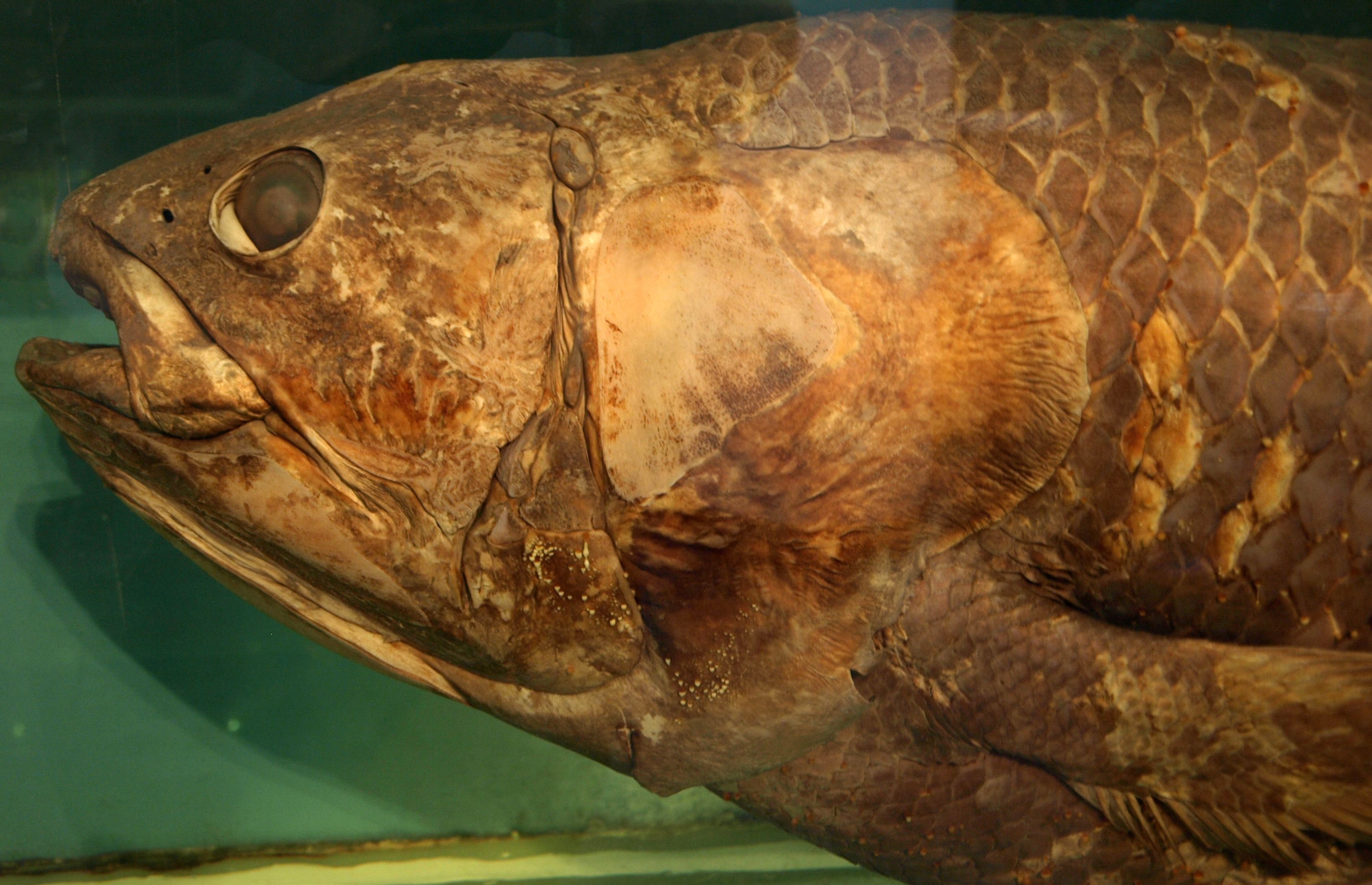 Preserved coelacanth specimen on display at the Paleozoological Museum of China.